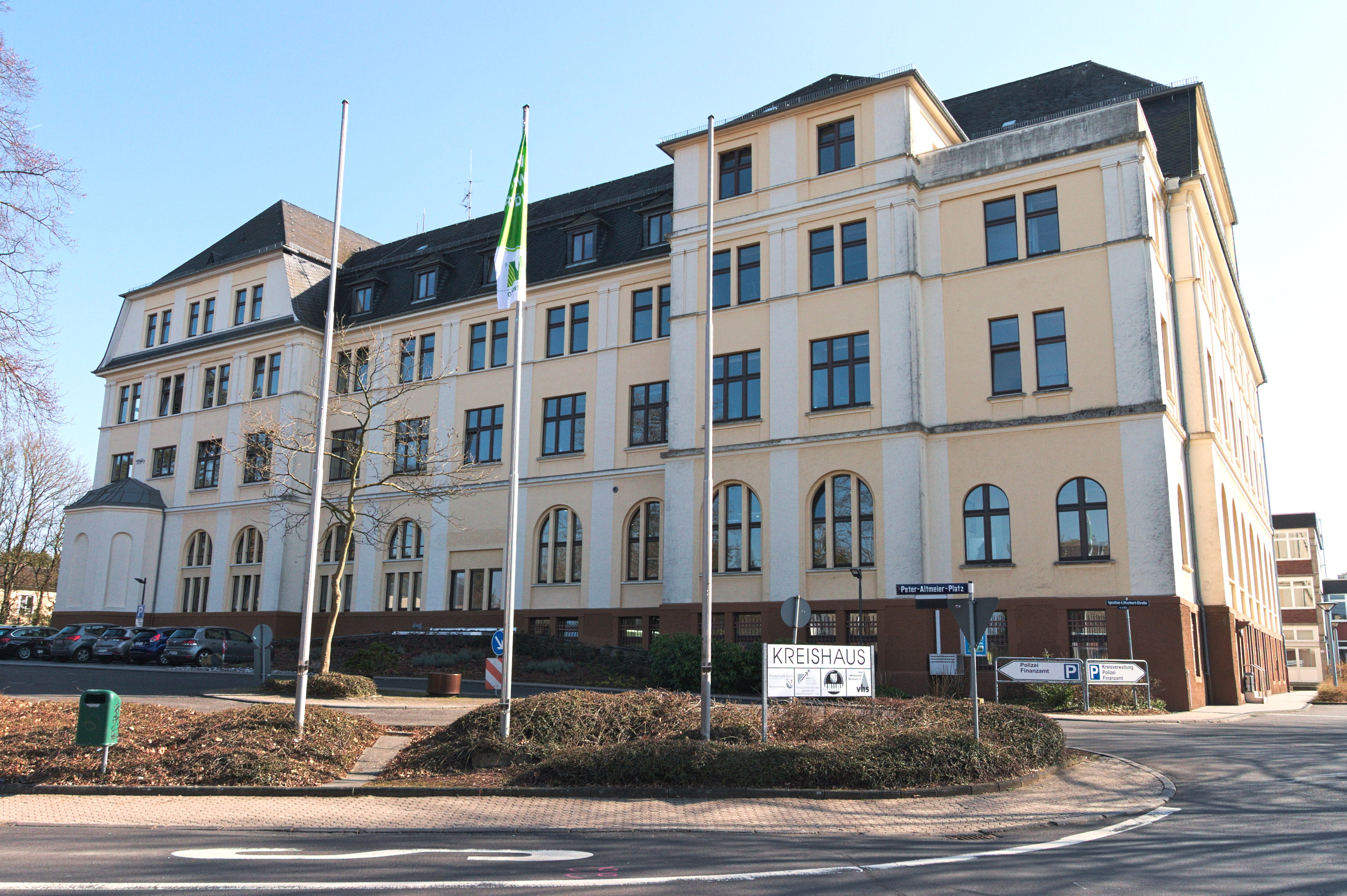 Building of the district administration of Westerwaldkreis in Montabaur, Germany. View from north-west